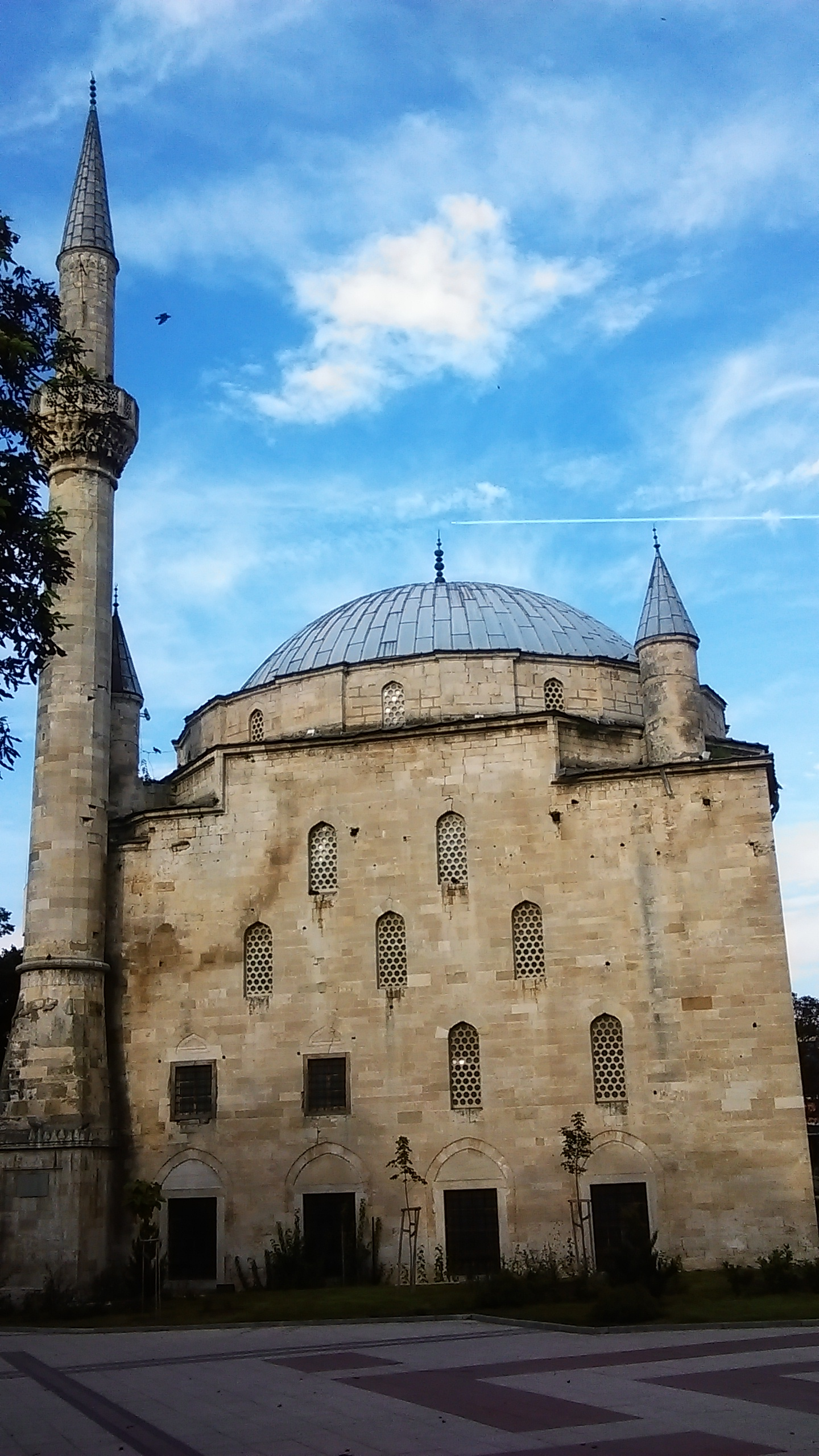 Ibrahim Pasha Mosque, Razgrad, exterior